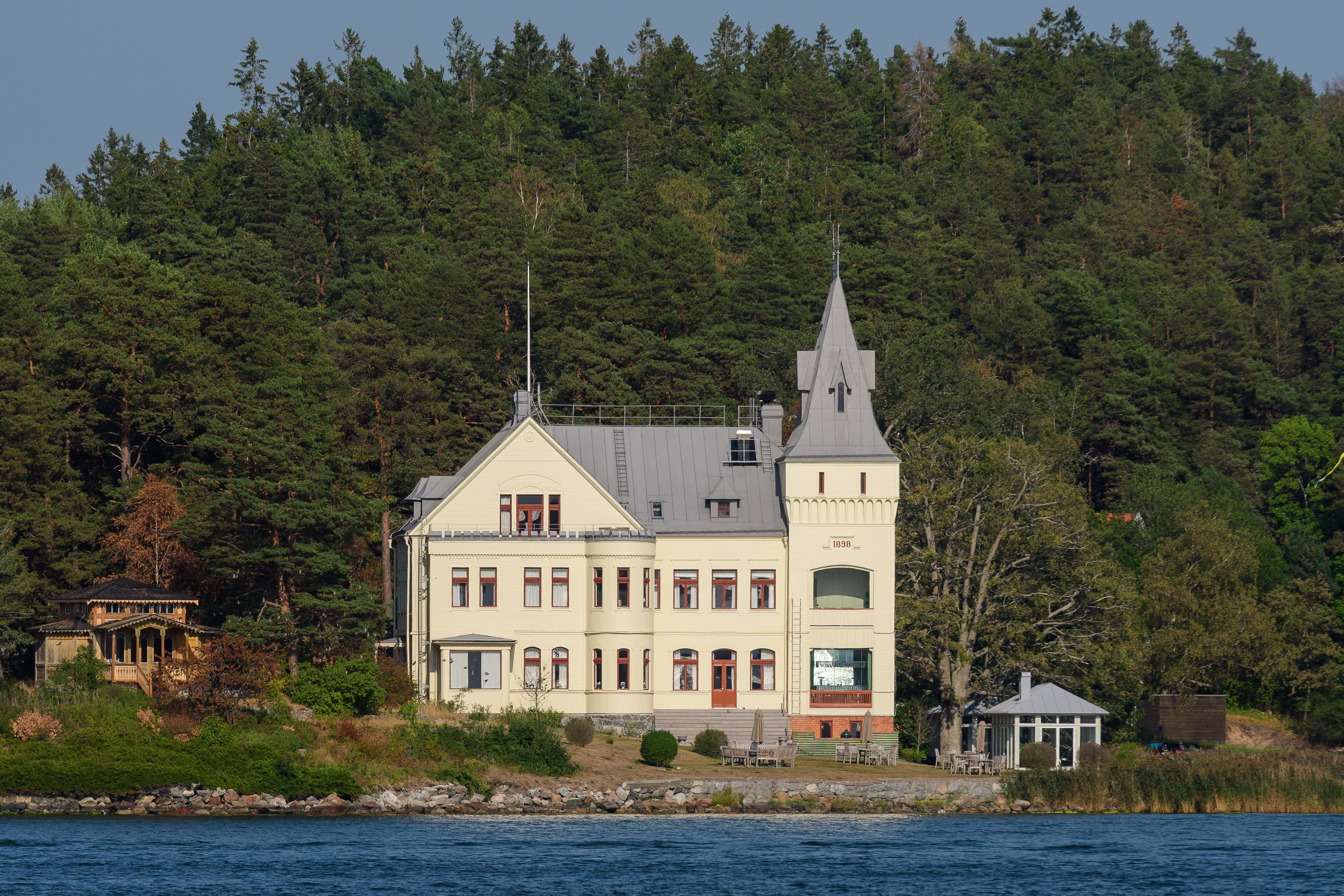 Villa Björkudden at Tynningö in Stockholm archipelago. Built for General Art and Industrial Exposition of Stockholm in 1897 and moved to Tynningsö after the exposition.